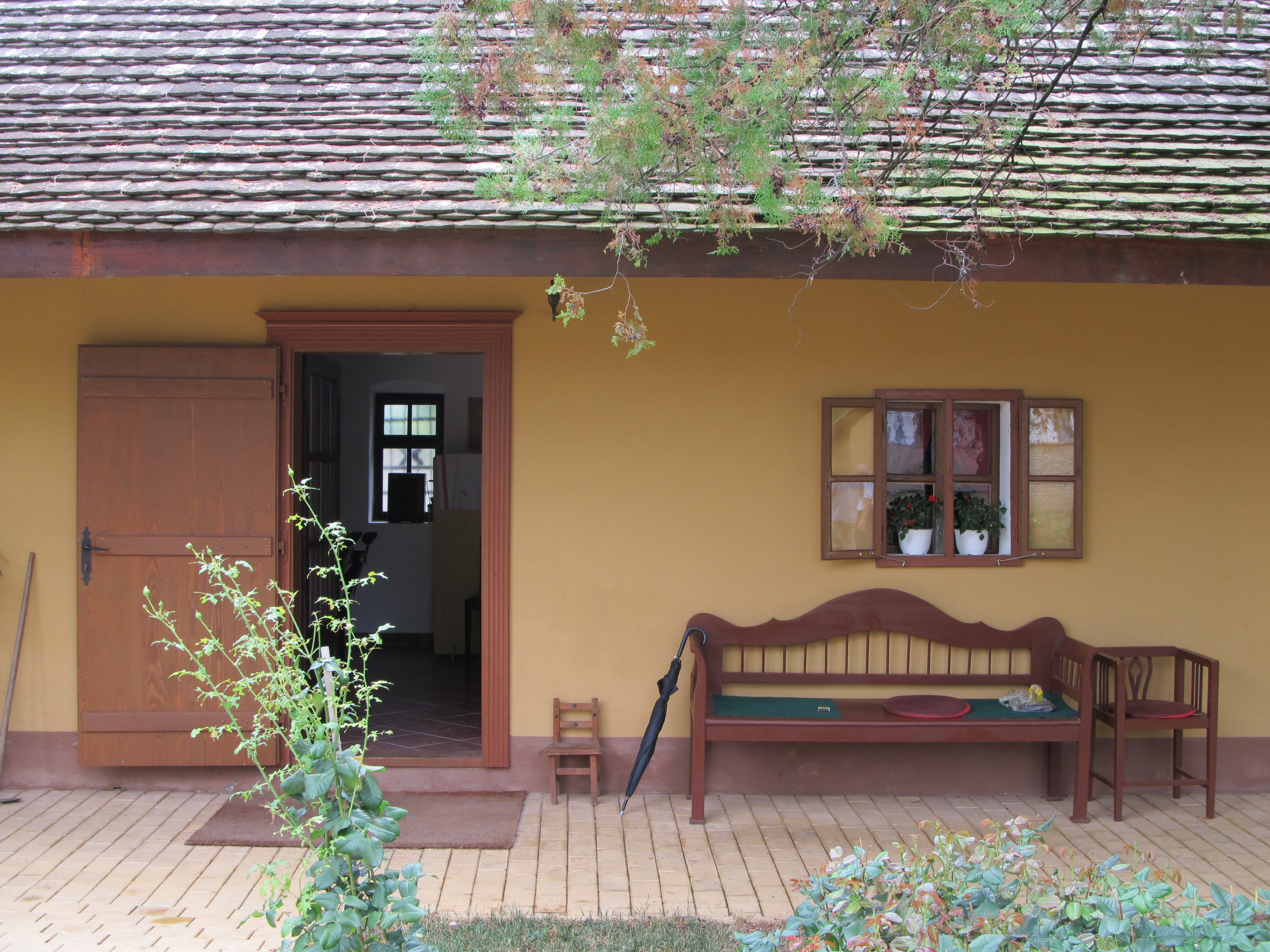 Glavaš House in Vranjevo - yard facility